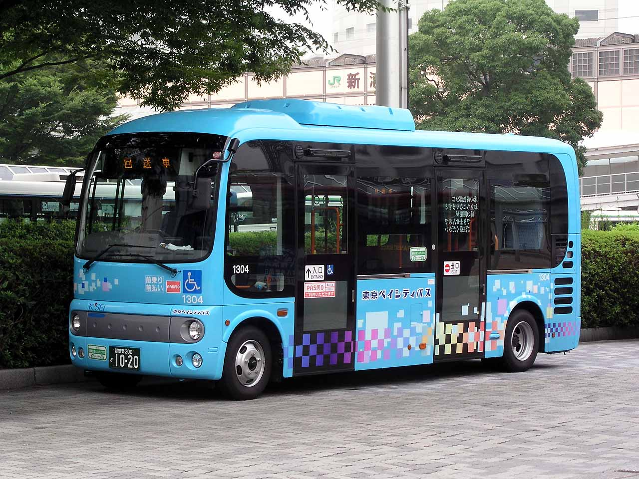 Fleet of Tokyo Bay City Kotsu (TBCK), Hino Poncho HX (BDG-HX6JLAE) for standard route bus. License plate: CBN200 KA1020 Place: Shin-Urayasu station, Urayasu city, Chiba Japan